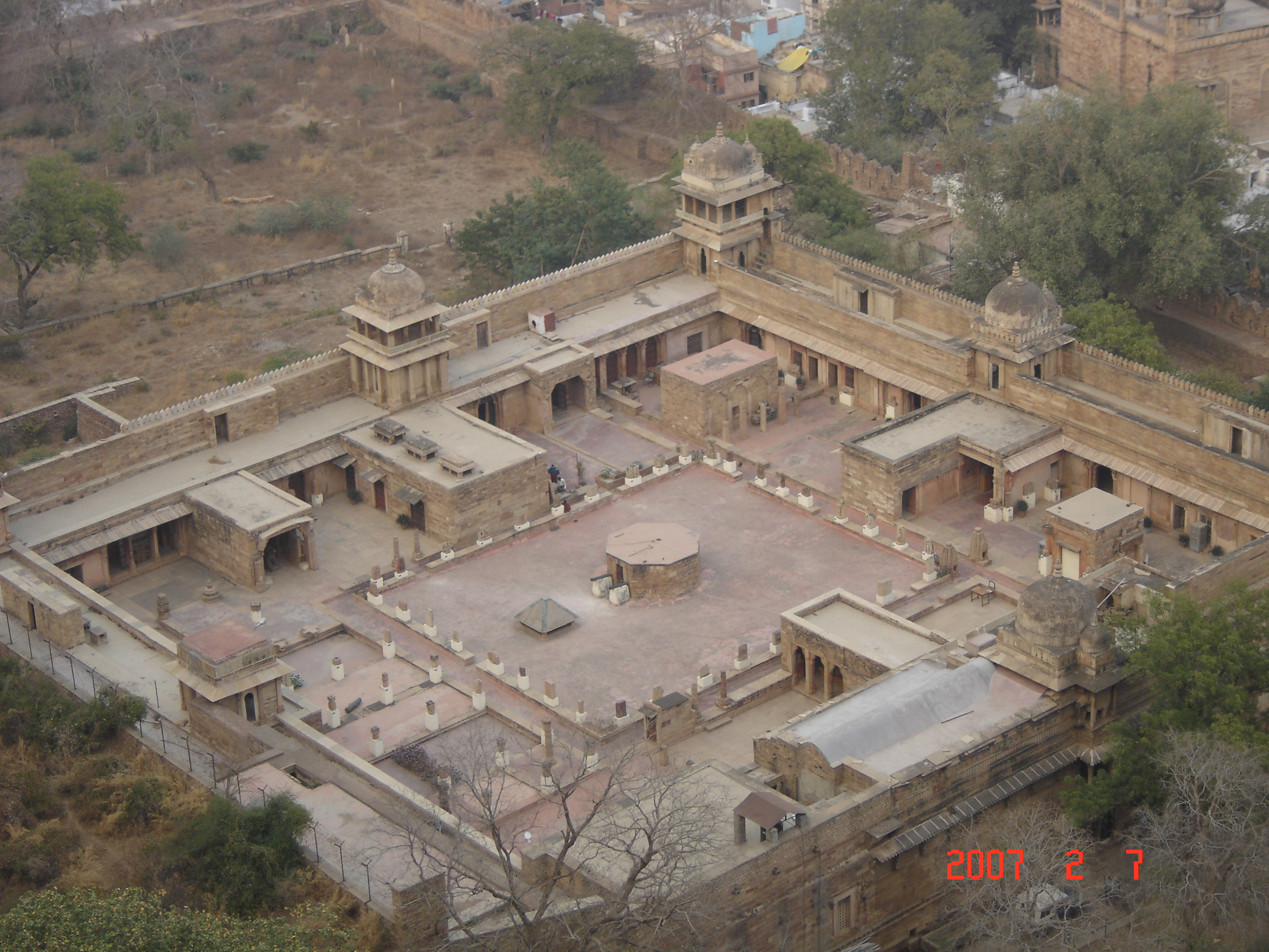 View of Gujari Mahal built by the Tomar King Raja Man Singh for his wife Mrignayani.